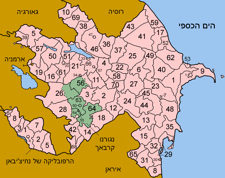 after file:Azerbaijan districts numbered.png